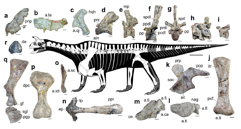 Skeletal anatomy of Shringasaurus indicus. (a) Left premaxilla (ISIR 793) in lateral view. (b) Left maxilla (ISIR 795) in lateral view. (c) Left quadrate (ISIR 797) in lateral view. (d) Axis (ISIR 803) in left lateral view. (e) Posterior cervical vertebra (ISIR 820) in left lateral view. (f,g) Anterior dorsal vertebra (ISIR 825) in left lateral view in (f), and anterior view in (g). (h) Two anterior caudal vertebrae (ISIR 875) in right lateral view (mirrored). (i) Posterior caudal vertebra (ISIR 892) in left lateral view. (j) Right femur (ISIR 1016) in ventral view. (k) Left ilium (ISIR 991) in lateral view. (l), (m) Right astragalus and fused lateral centrale (ISIR 1059) in proximal view in (l), and dorsal view in (m). (n) Interclavicle (ISIR 950) in ventral view. (o) Left clavicle (ISIR 948) in medial view. (p) Left humerus (ISIR 951) in ventral view. (q) Left scapula (ISIR 929) and coracoid (ISIR 941) in lateral view. (r) Tooth crown (ISIR 801A) in labial view. Scales = 1 cm for (a–c,i,m,l), 2 cm for (d–h,j,k,n–q), and 1 mm for (r), and skeleton = 25 cm. a. articulates with; ac, acetabulum; ain, axial intercentrum; ap, anterior process; ca, calcaneum; ce, lateral centrale; de, denticles; dpc, deltopectoral crest; fi, fibula; gf, glenoid fossa; gr, groove; hqh, hooked quadrate head; icl, interclavicle; itr, internal trochanter; la, lacrimal; lp, lateral process; mp, mammillary process; nag, non-articular gap; pcdl, posterior centrodiapophyseal lamina; pgp, postglenoid process; pnp, postnasal process; pof, popliteal fossa; pop, postacetabular process; pp, parapophysis; ppr, posterior process; ppdl, paradiapophyseal lamina; prdl, prezygodiapophyseal lamina; prp, preacetabular process; prz, prezygapophysis; qj, quadratojugal; sac, supraacetabular crest; sc, scapula; sgl, subglenoid lip; spdl, spinodiapophyseal lamina; sprdl, spinoprezygapophyseal lamina; ti, tibia.